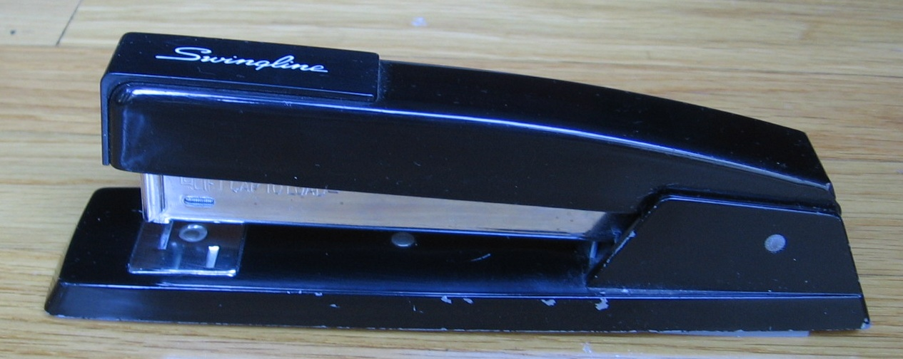 ordinary desk stapler, shot by User:Scs 23:14, 27 June 2006 (UTC)